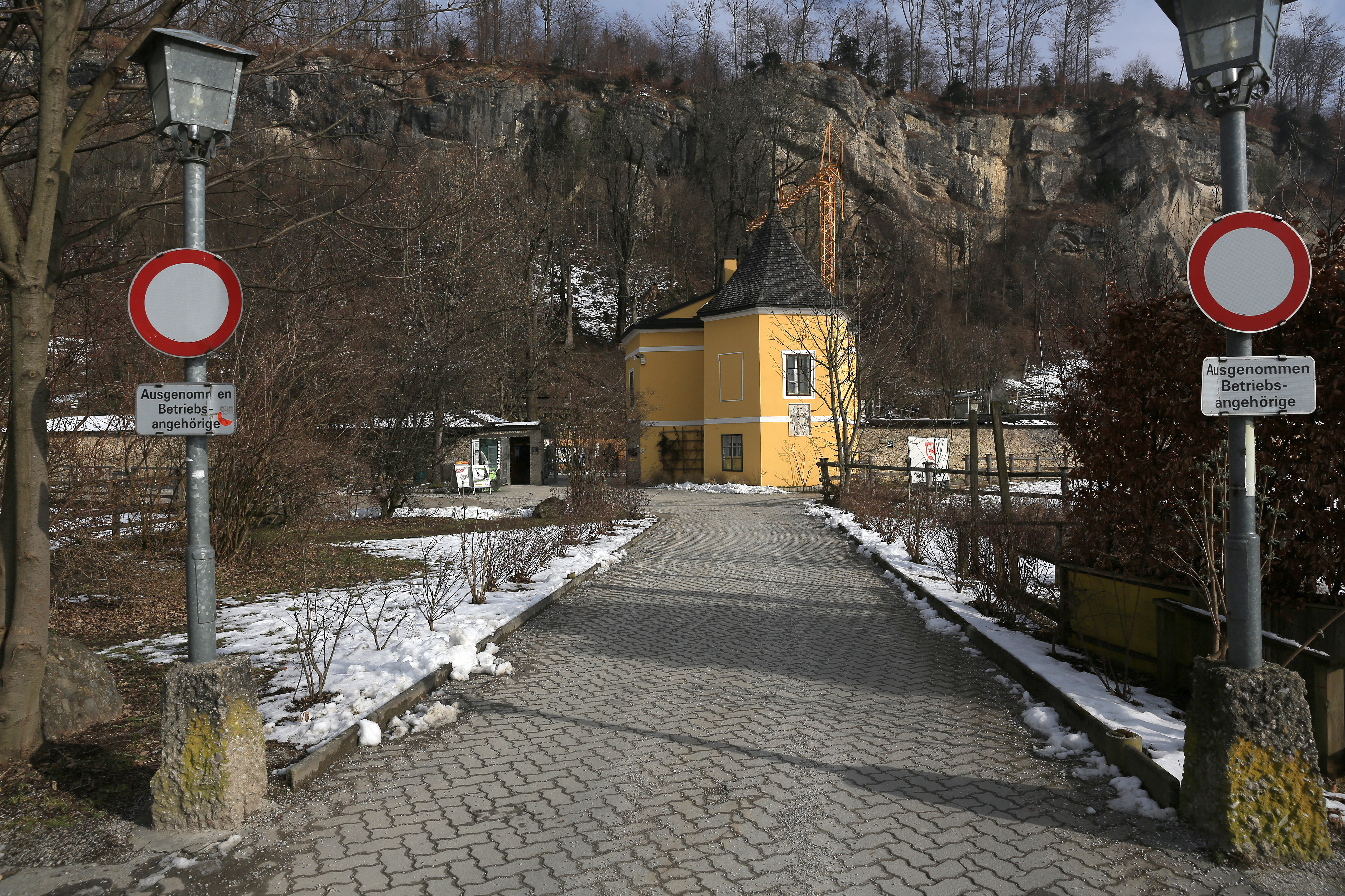 Main entrance Salzburg Zoo (Salzburg, Austria).